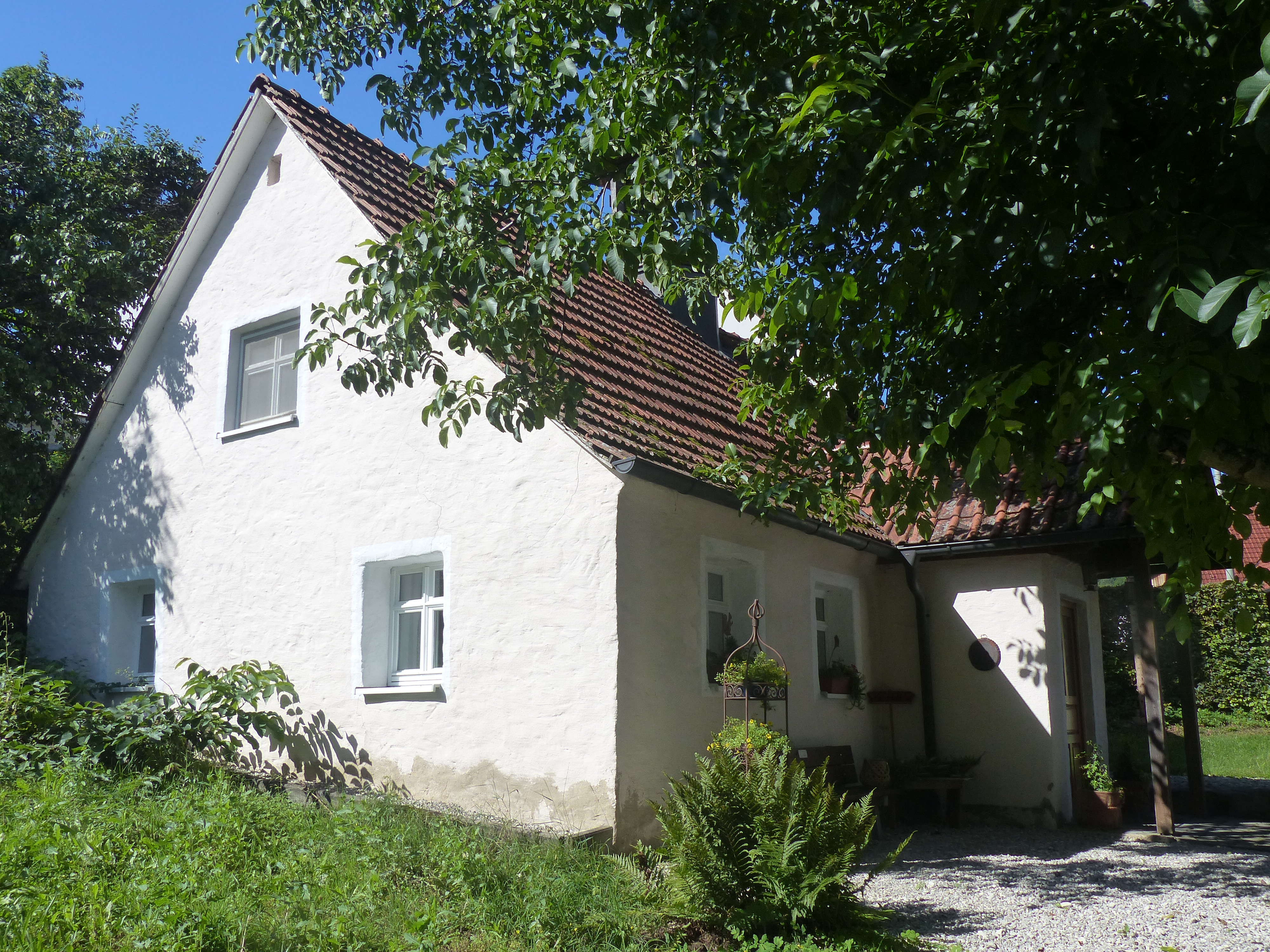 The former community house of the village Hundshaupten, a district of the municipality of Egloffstein.